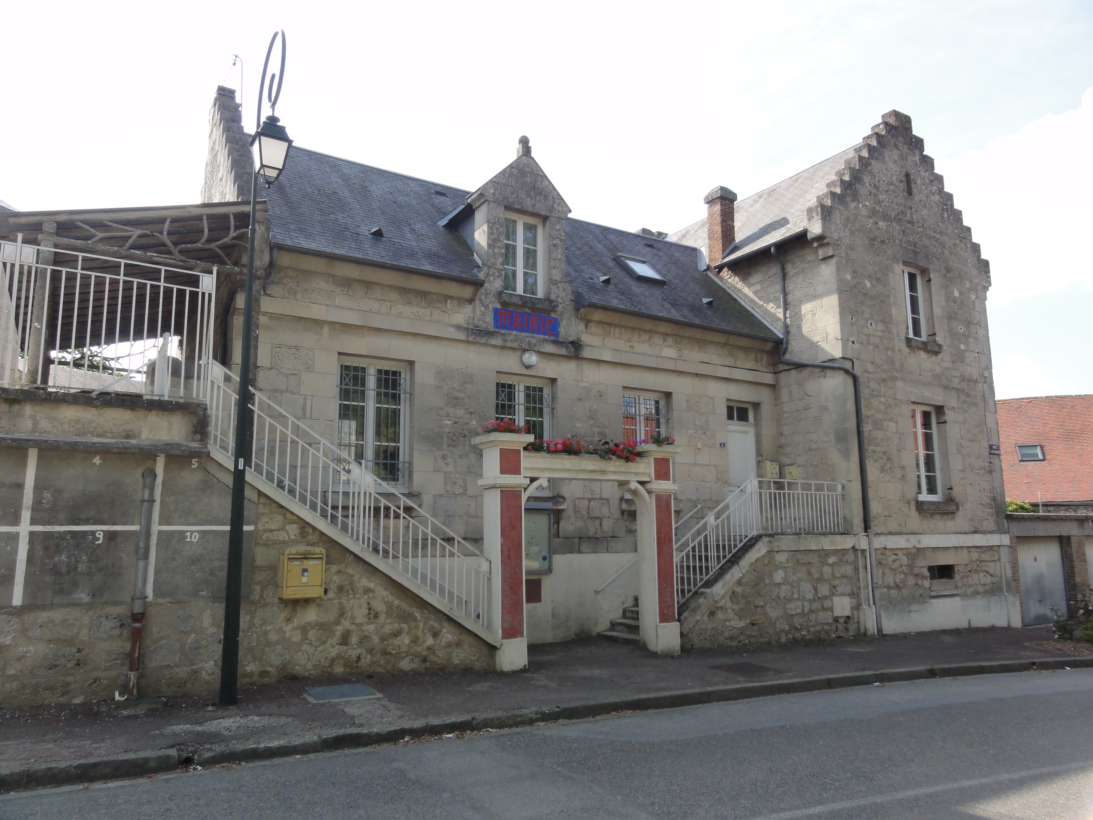 Chaudun (Aisne) mairie